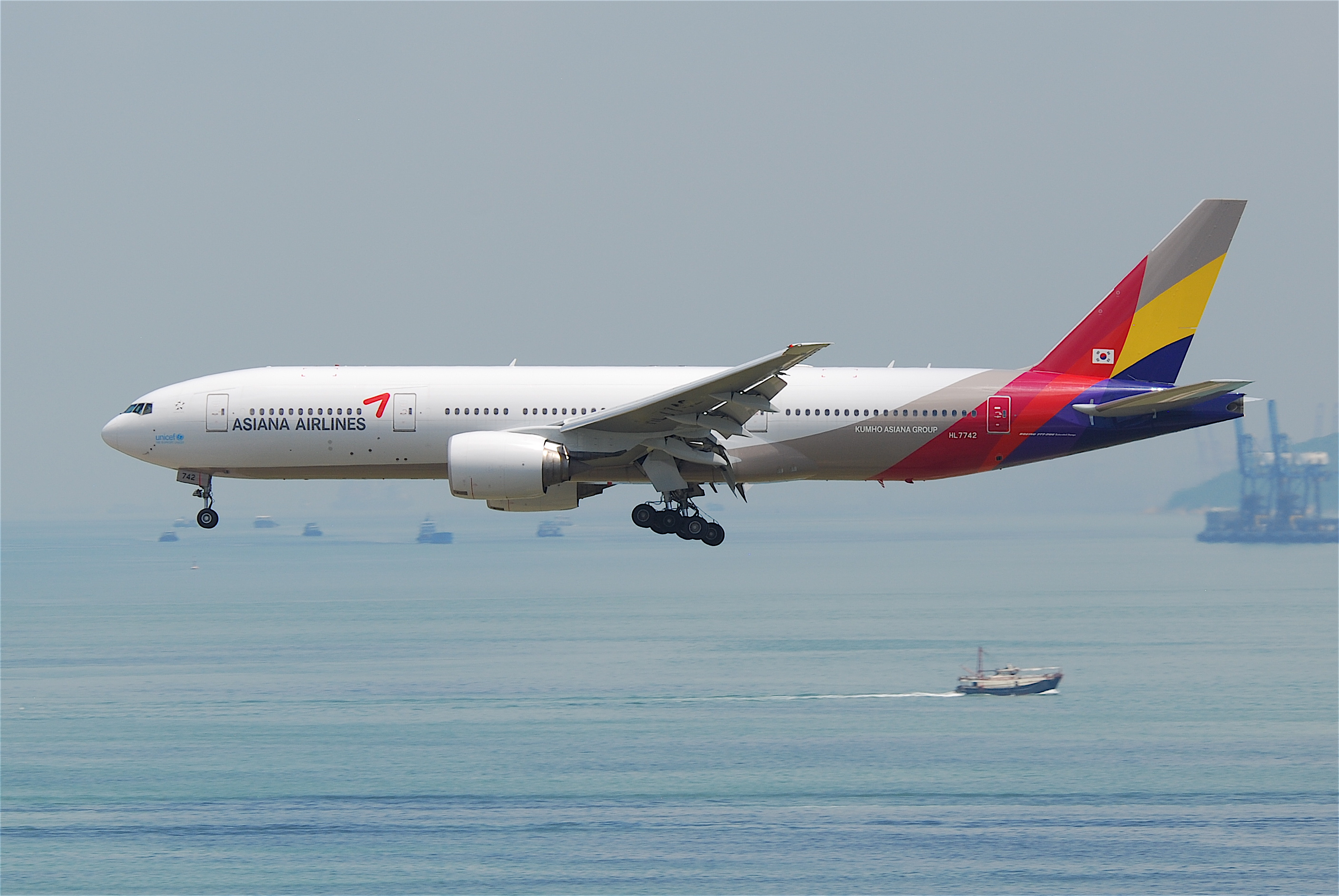 Asiana Airlines Boeing 777-200ER (HL7742) landing at Hong Kong International Airport.